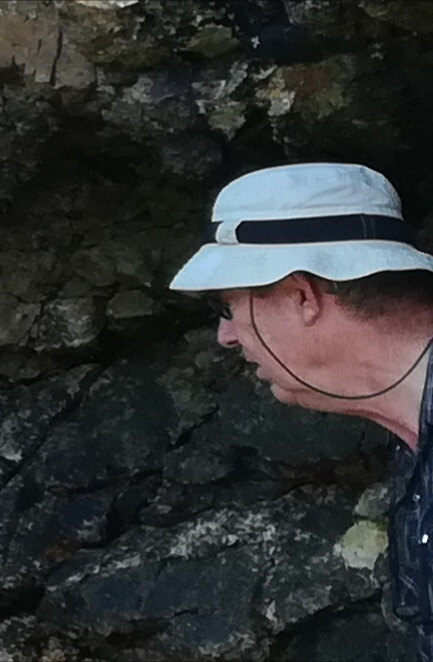 Jan looking at rocks and stuff